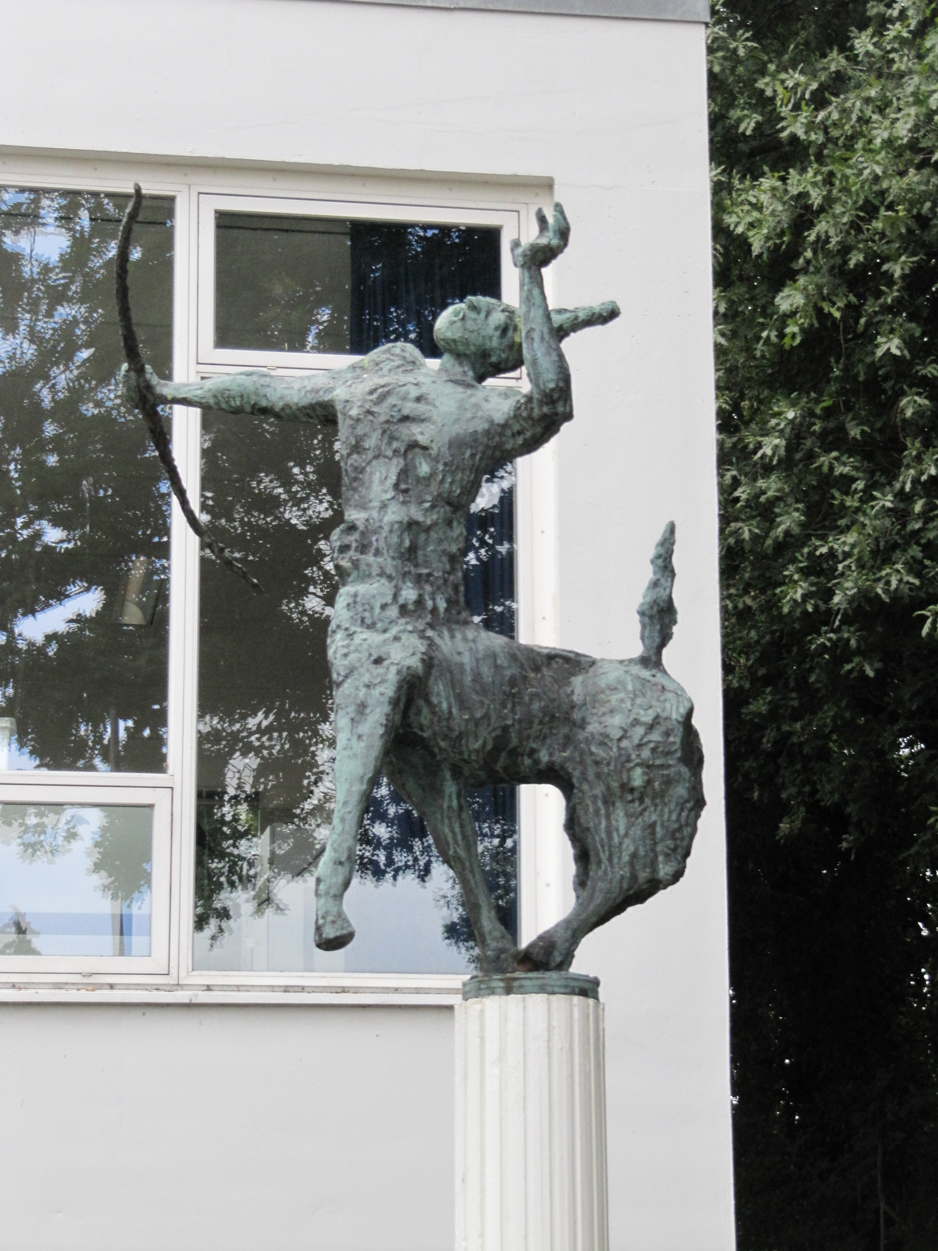 Statue "Boogschutter" by Theo van der Nahmer in front of the Amersfoortse Berg school at the Hugo de Grootlaan in Amersfoort, The Netherlands